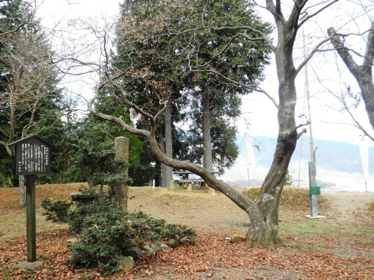 Site of Kobayakawa Hideaki's position in the Battle of Sekigahara located in Mt.Matsuo.